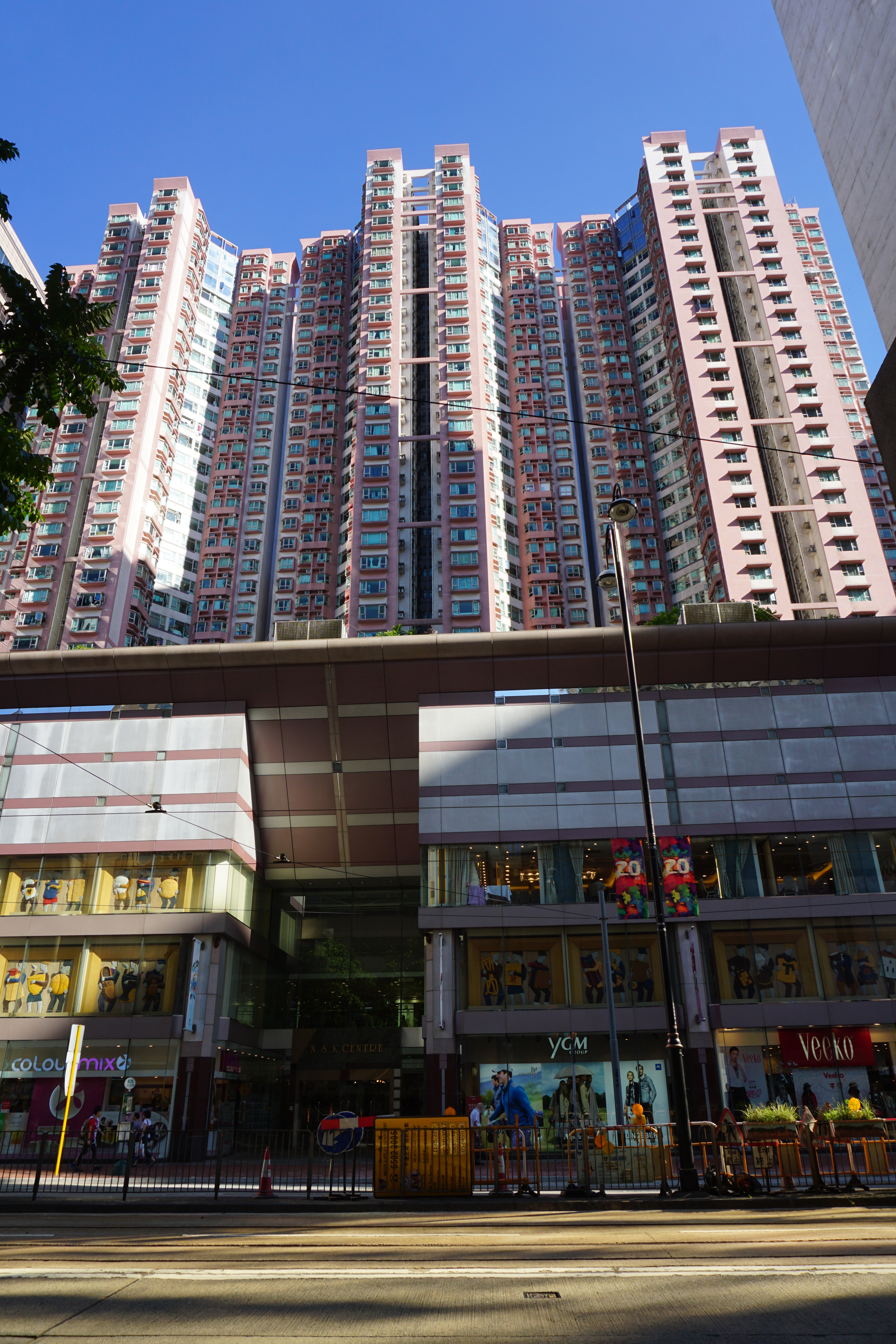 Island Place in North Point, Hong Kong.